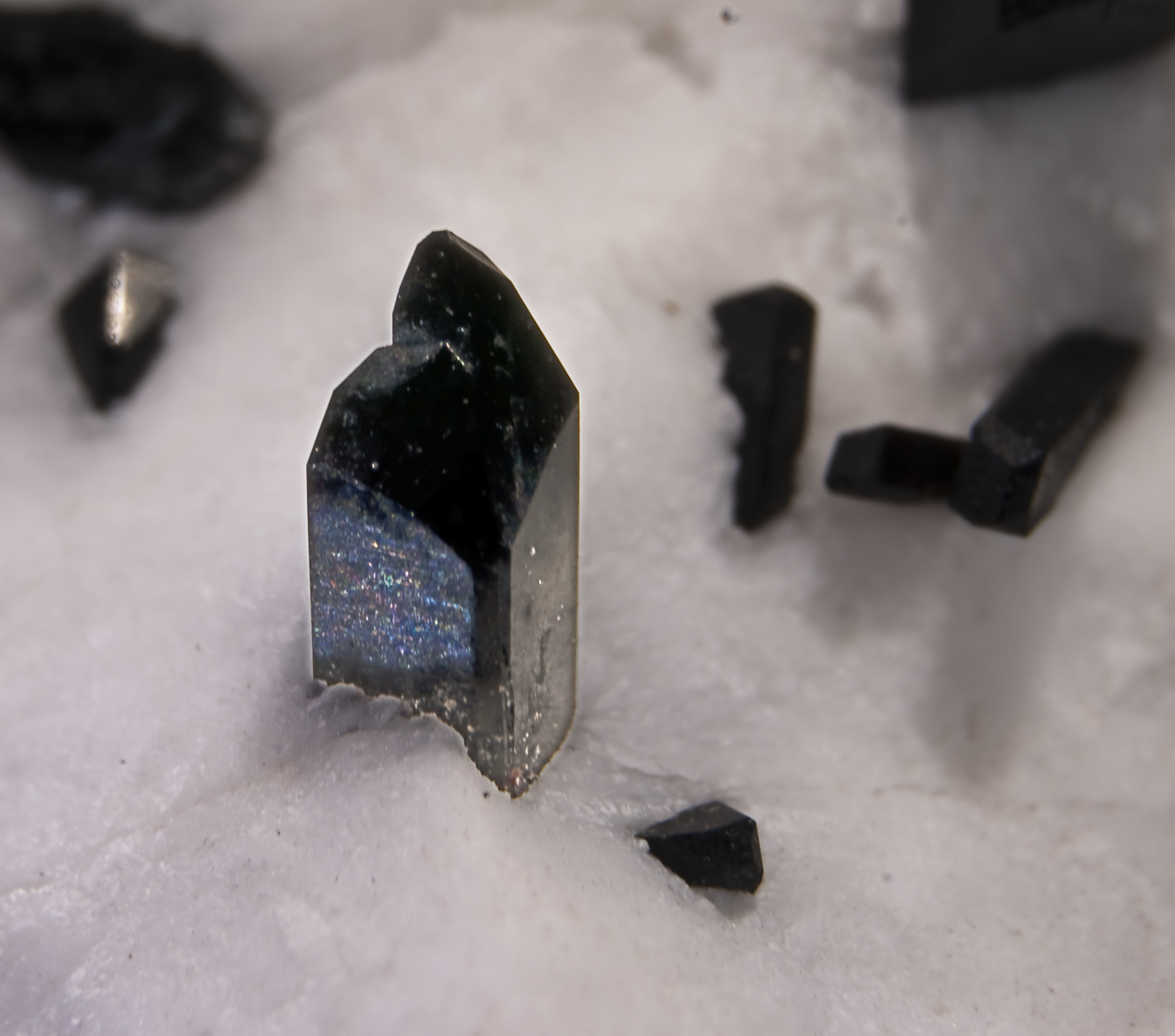 Neptunite Twin on {301} Locality : Dallas Gem Mine (Benitoite Mine; Benitoite Gem Mine; Gem Mine), Dallas Gem Mine area, San Benito River headwaters area, New Idria District, Diablo Range, San Benito Co., California, USA Size 8 mm